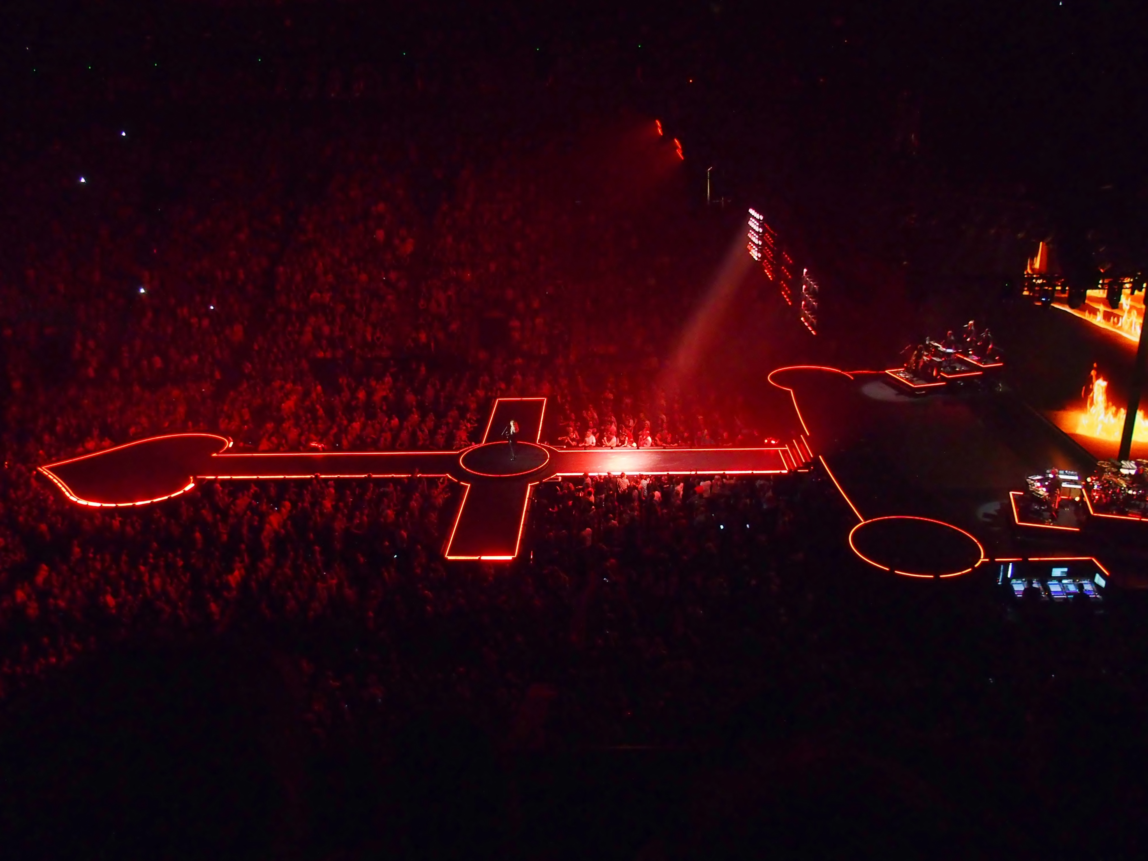 Madonna, Rebel Heart Tour, Bell Center, Olympus Stylus 1, Montréal, 10 September 2015 (8) Madonna performing on the Rebel Heart Tour